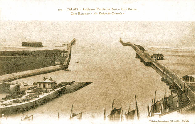 Enter of calais harbour